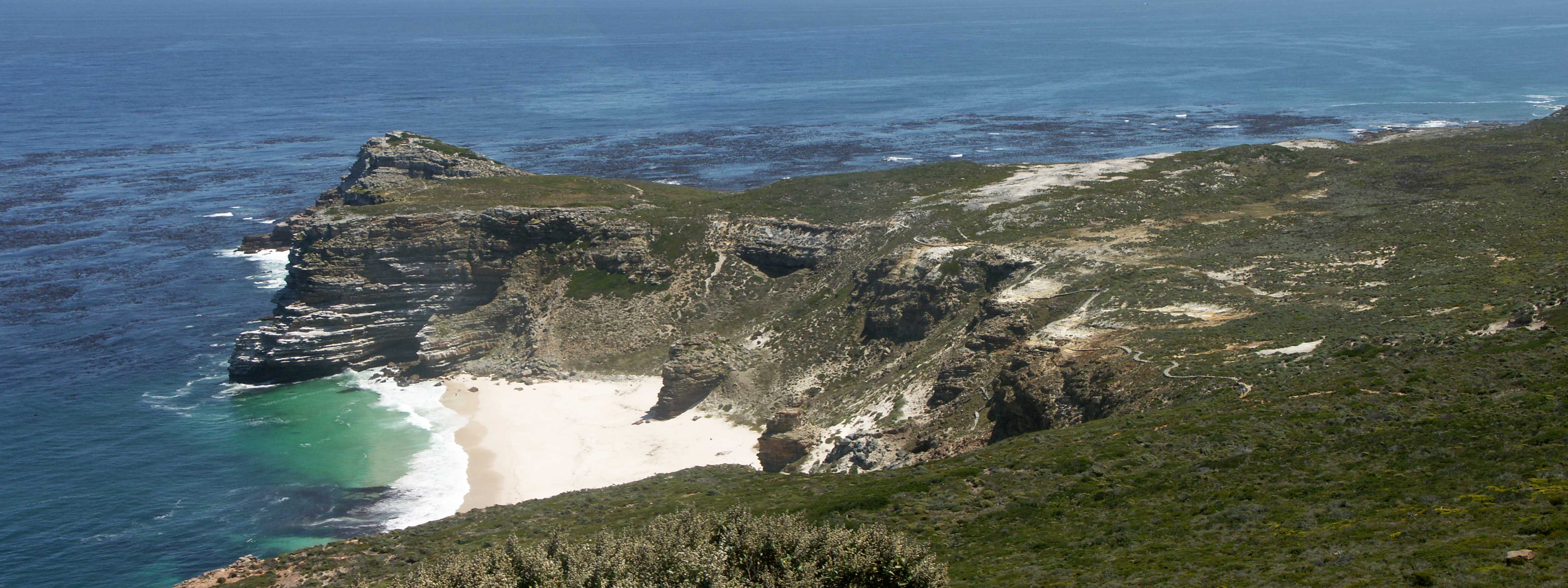 South Africa - Cape of Good Hope - Panorama made of 3 pictures